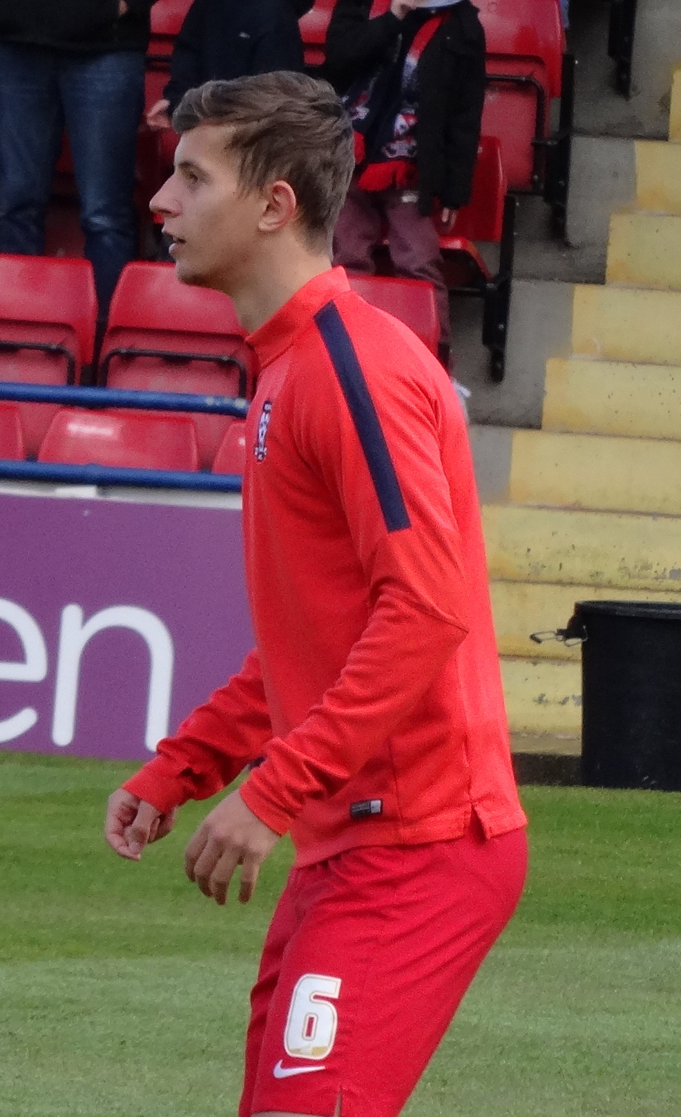 Ľubo Šatka training with York City before their match against Bristol Rovers at Bootham Crescent, York on 30 April 2016